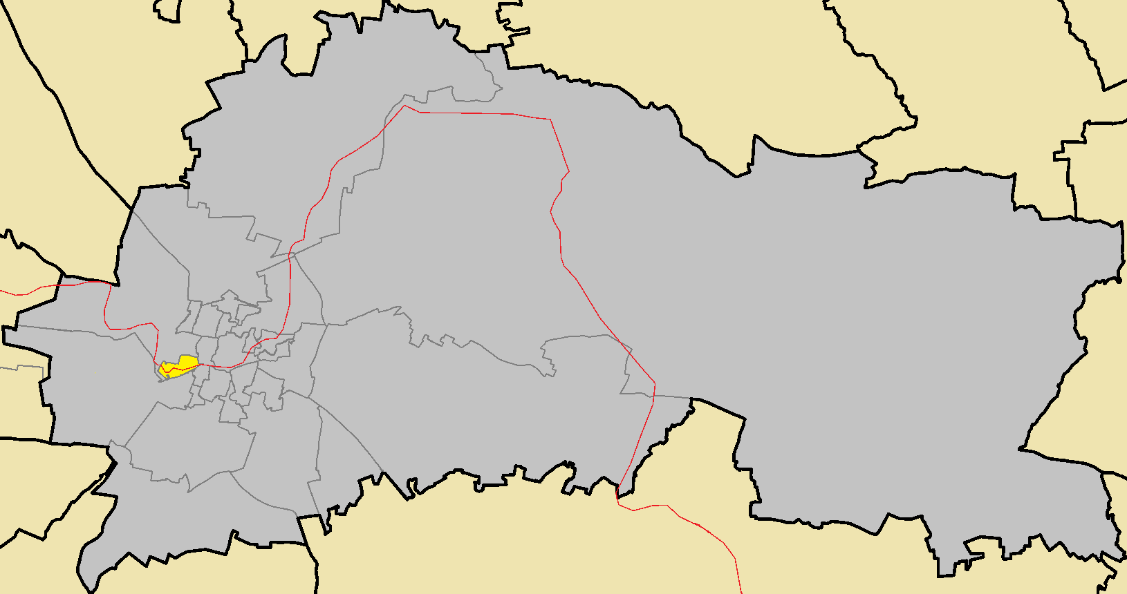 Karamanzante in Nicosia Municipality (de jure).